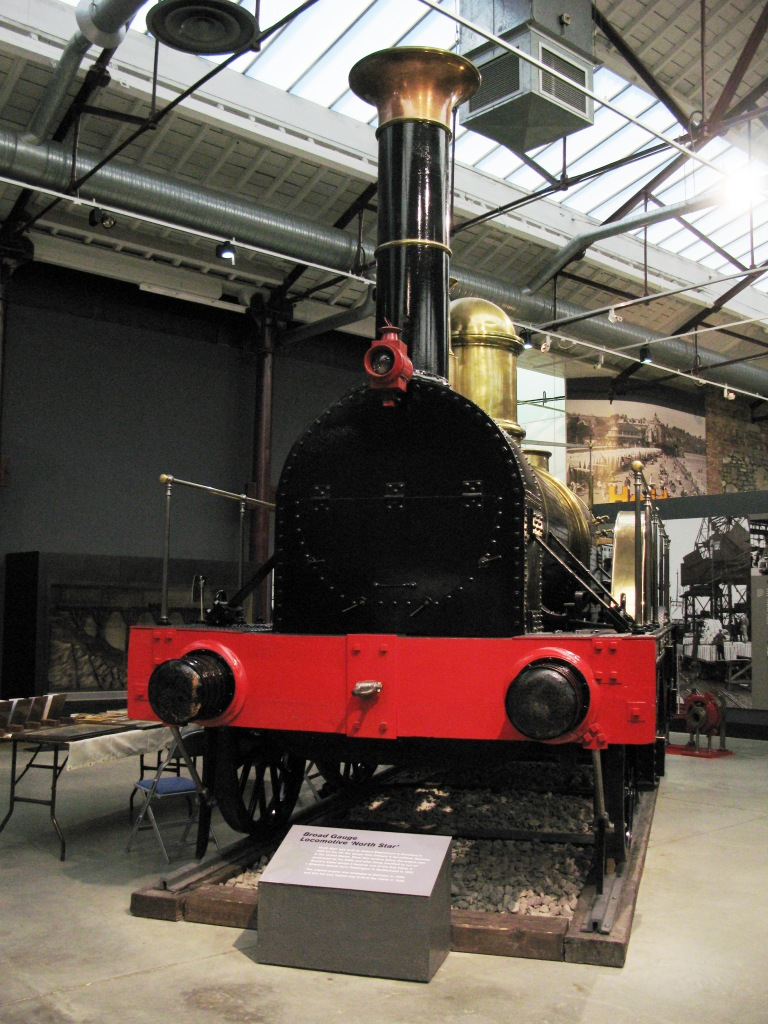 The rebuilt broad gauge North Star locomotive on display at Swindon, England.